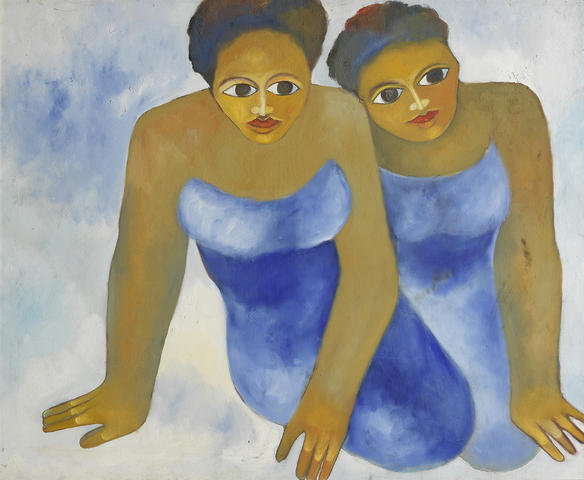 Two young girls painted 2008